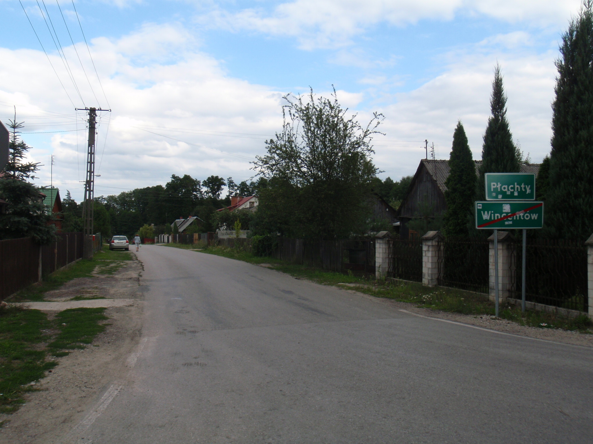 Płachty and Wincentów villages